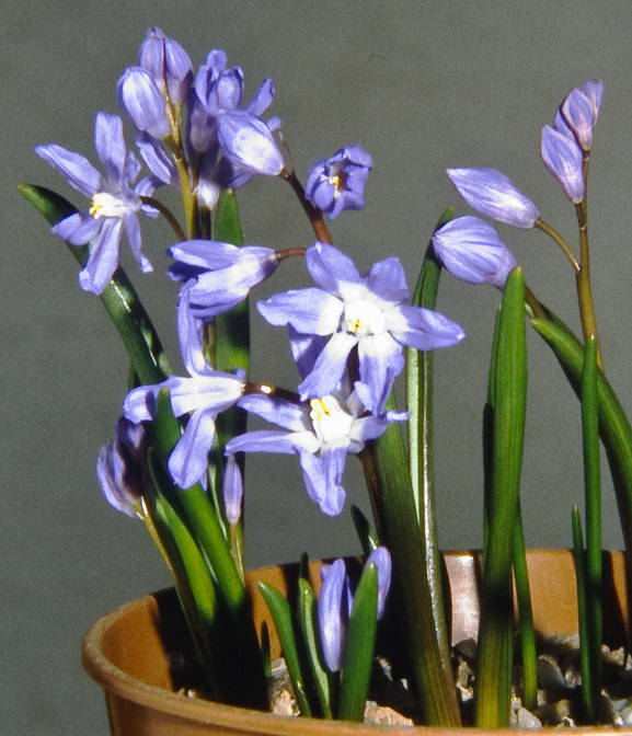 Chionodoxa sardensis grown in a pot. (The bulbs were bought under this name, but they do not fit some descriptions of the species, which suggest that it has only an indistinct white eye.)